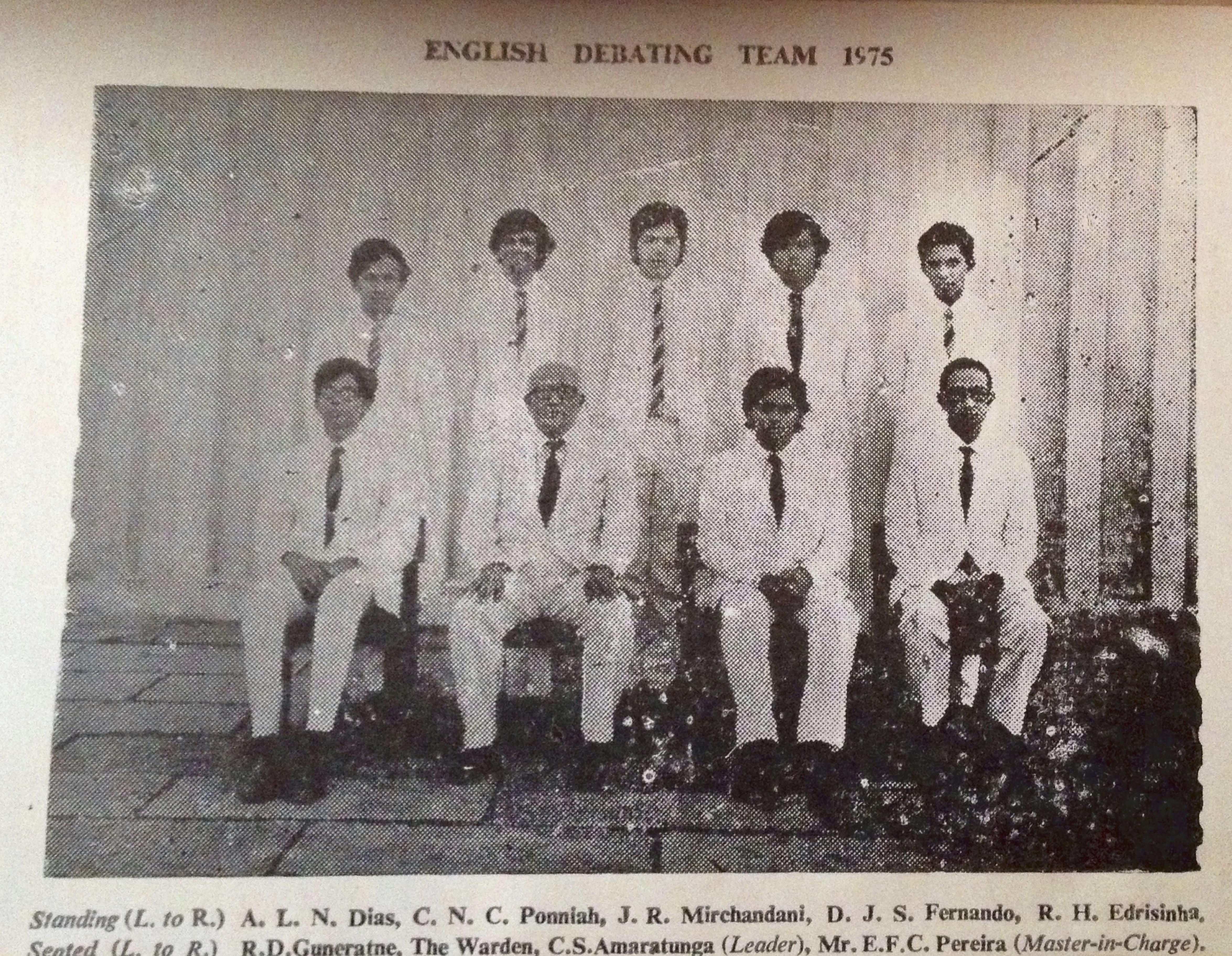 Picture of Chanaka Amaratunga as leader of the debating team. Chanaka Amaratunga started his career in debate at his alma mater. This picture was taken by me in july 1975 and a photograph of a faded print is all that remains.